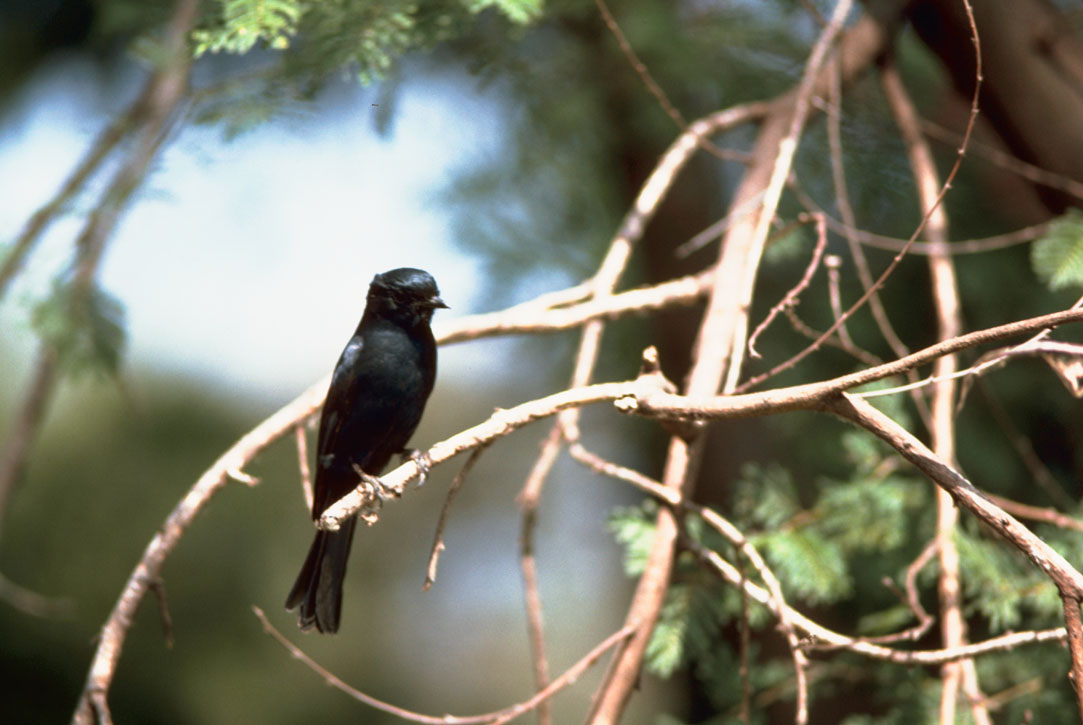 Bird (U.S. Fish and Wildlife Service)